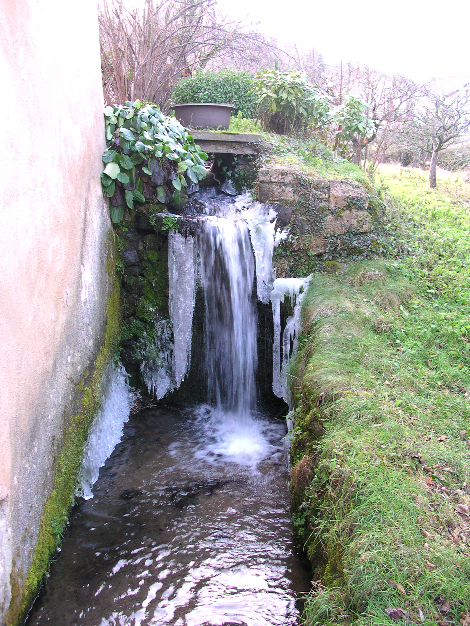 The Auzon river in the village of Chanonat (Puy-de-Dôme, France).